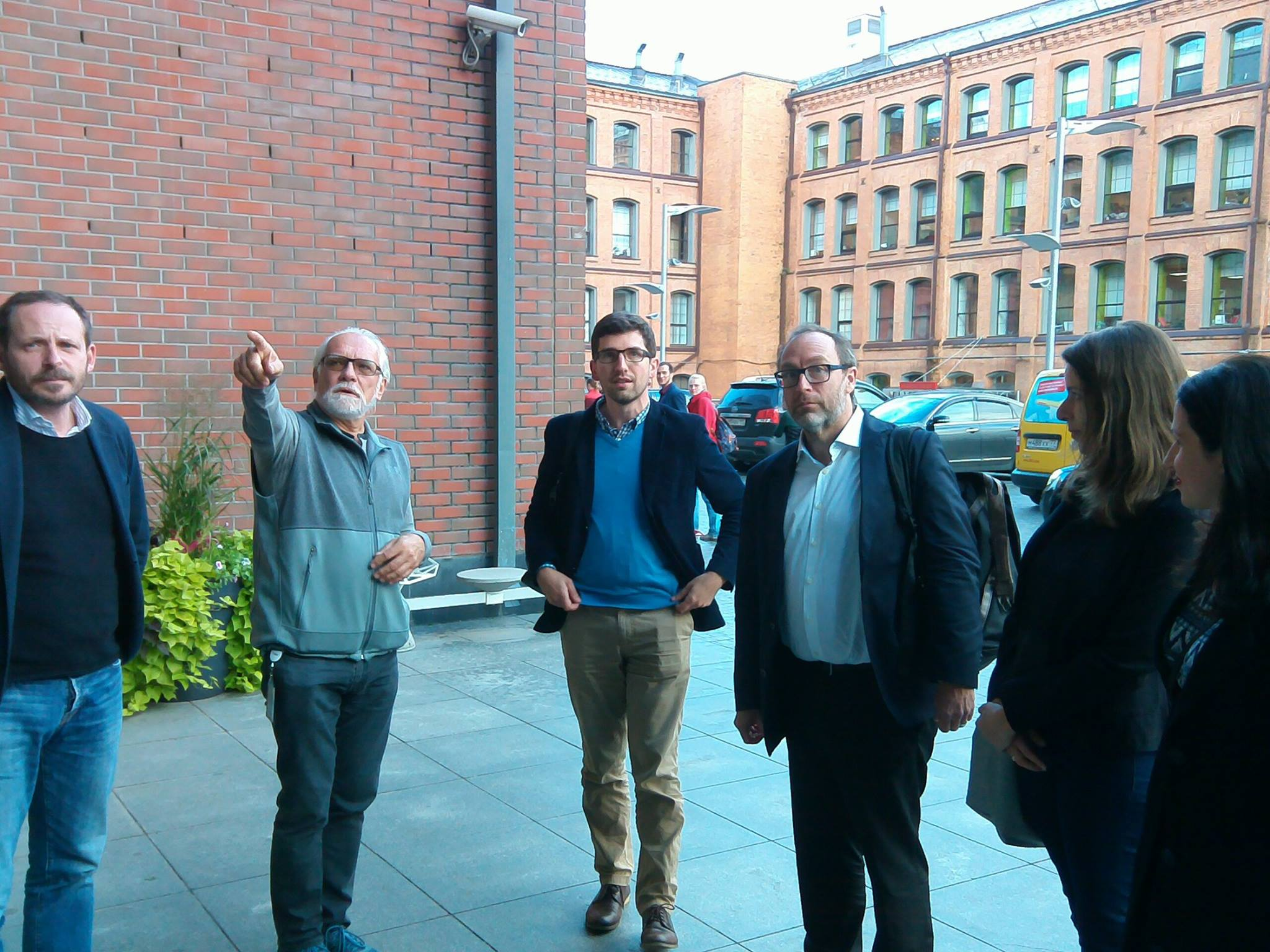 Jimmy Wales in Moscow 2016-09-14